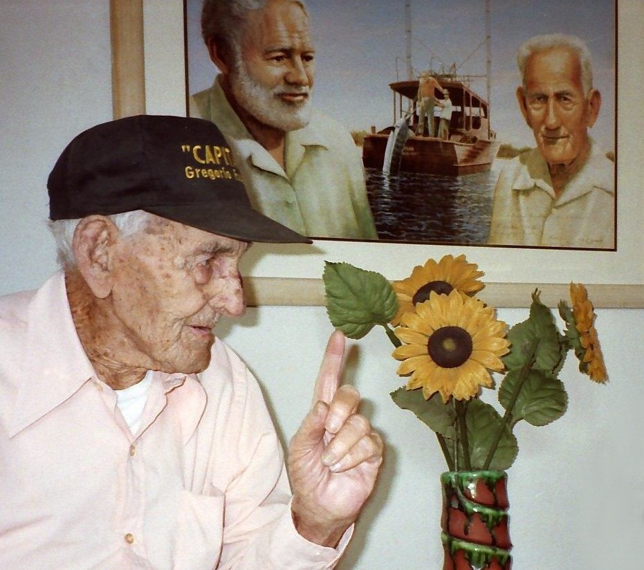 Gregorio Fuentes, said to be the model for the fisherman in Hemingway´s novel "The Old Man and the Sea", in a discussion at 100 years of age.